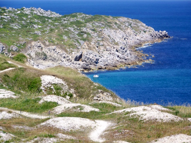 The Southwell Landslip The Southwell Landslide of 1734 is one of the largest recorded landslide events and it created Church Ope Cove in the process.